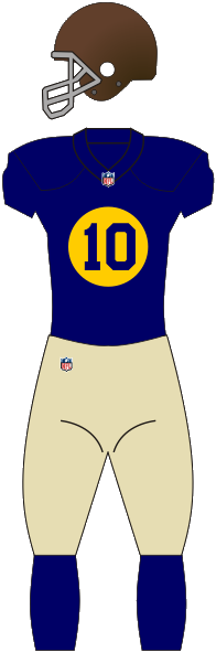 Green Bay Packers throwback uniform, inspired in their 1929 jerseys. This commemorative uniform was worn for the first time in 2010, having been reissued several times since then.